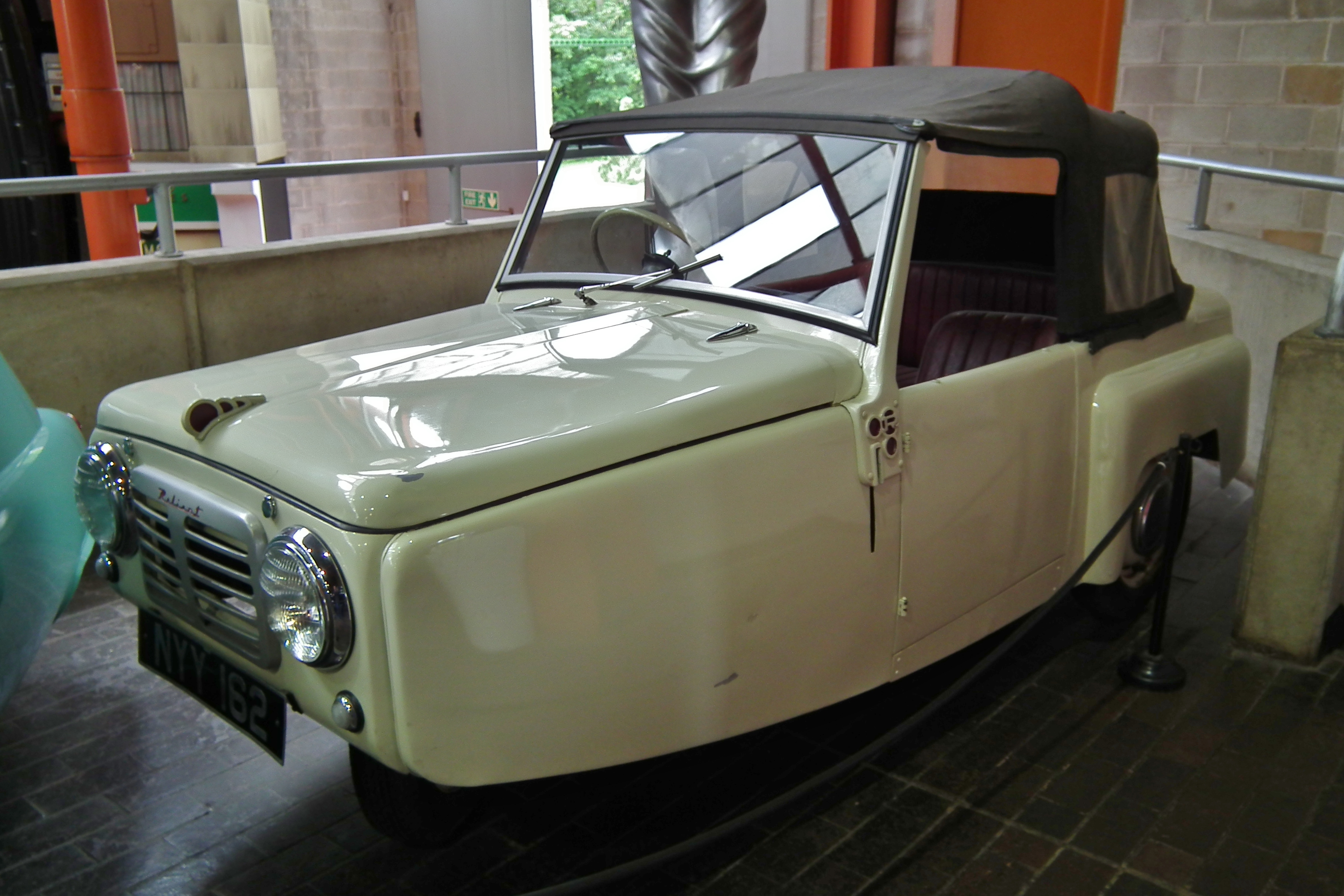 1953 Reliant Regal Mk I. Taken at the National Motor Museum in Beaulieu, Hampshire, England.